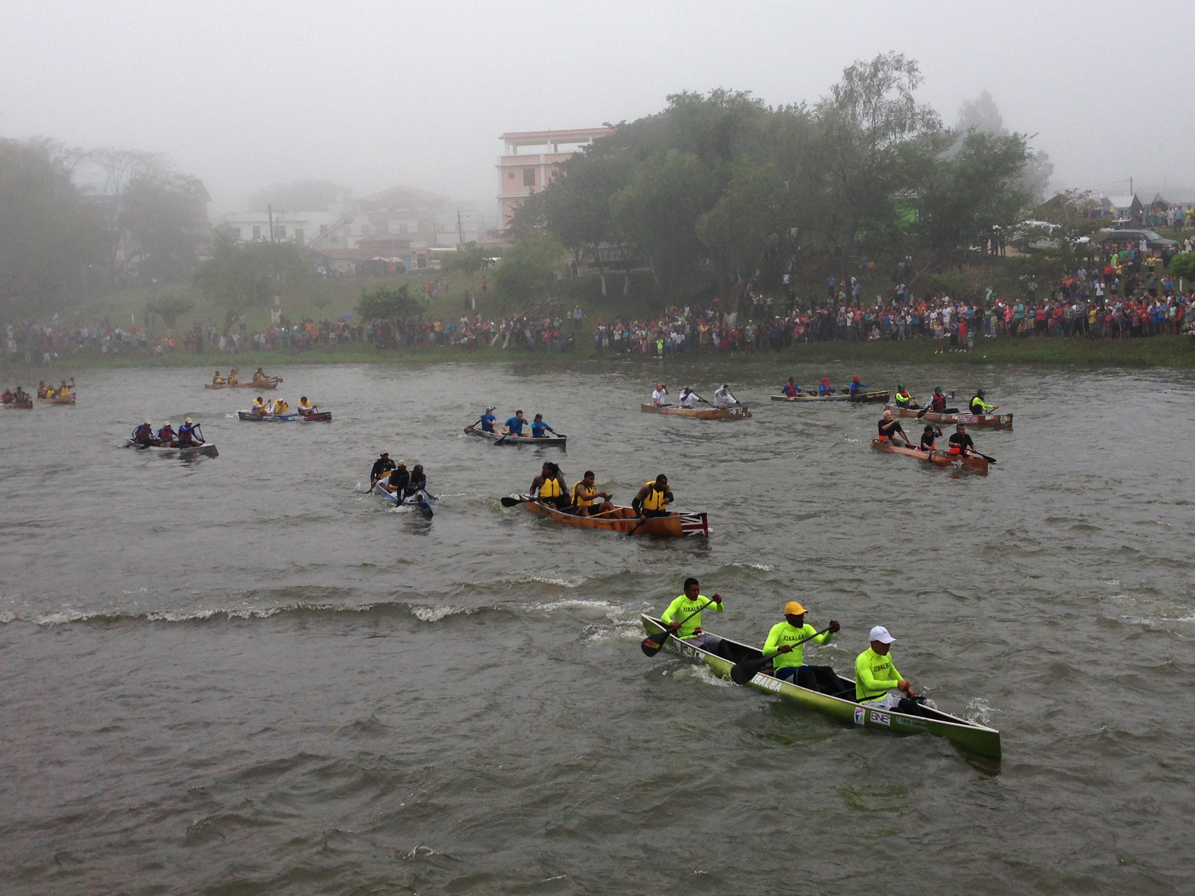 Canoe racers in San Ignacio, Belize, on the first day of La Ruta Maya